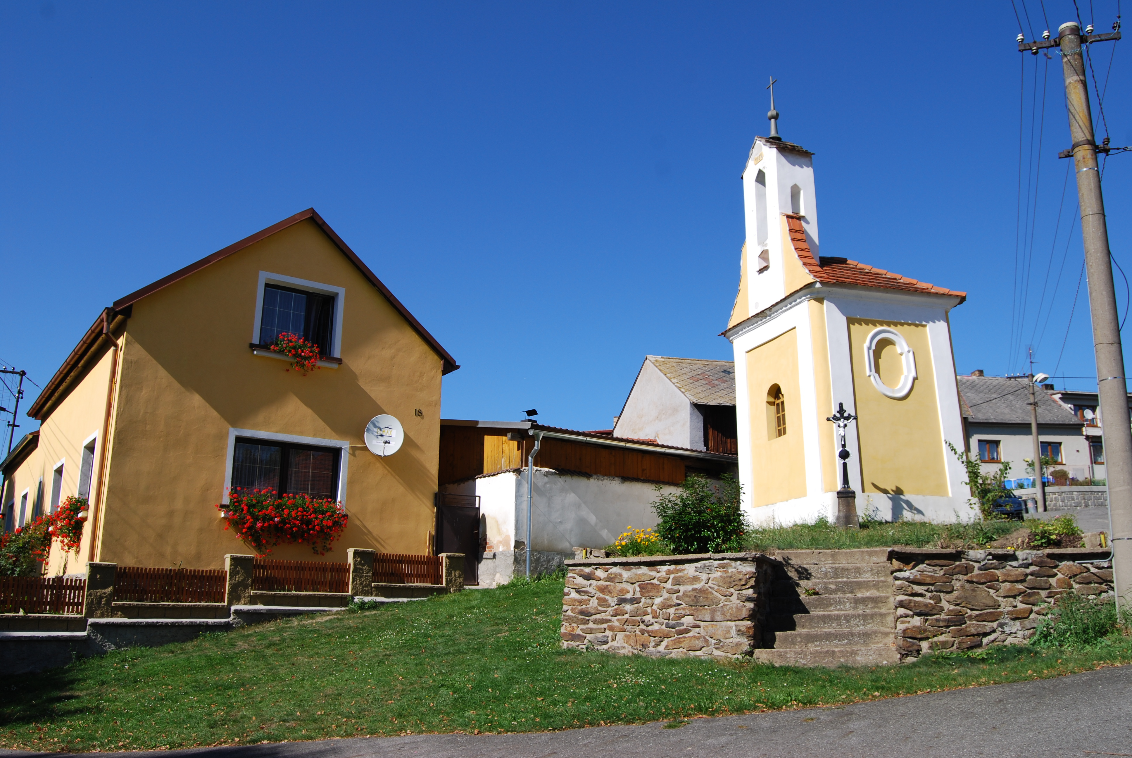 Borovany village in Písek District, Czech Republic. Chapel